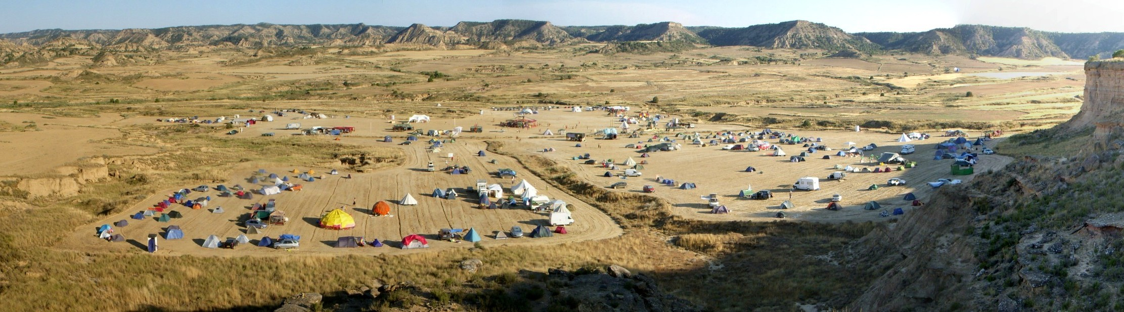 Nowhere 2009. View from the mountain. Complete festival site. Panorama picture, stitched together from 3 photos.